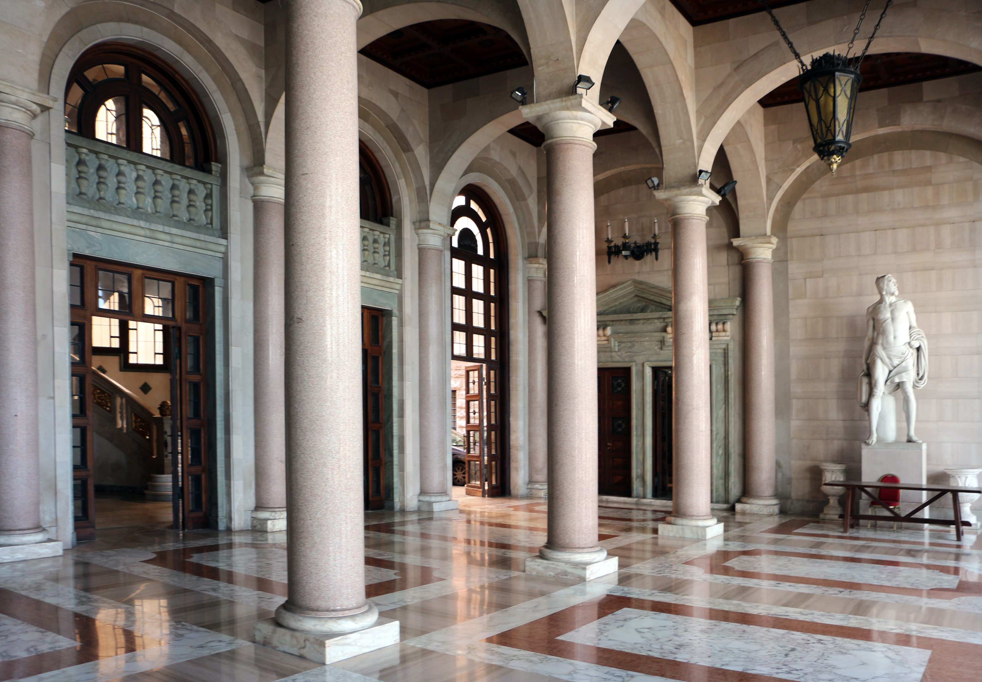 Palazzo della Provincia (Bari)